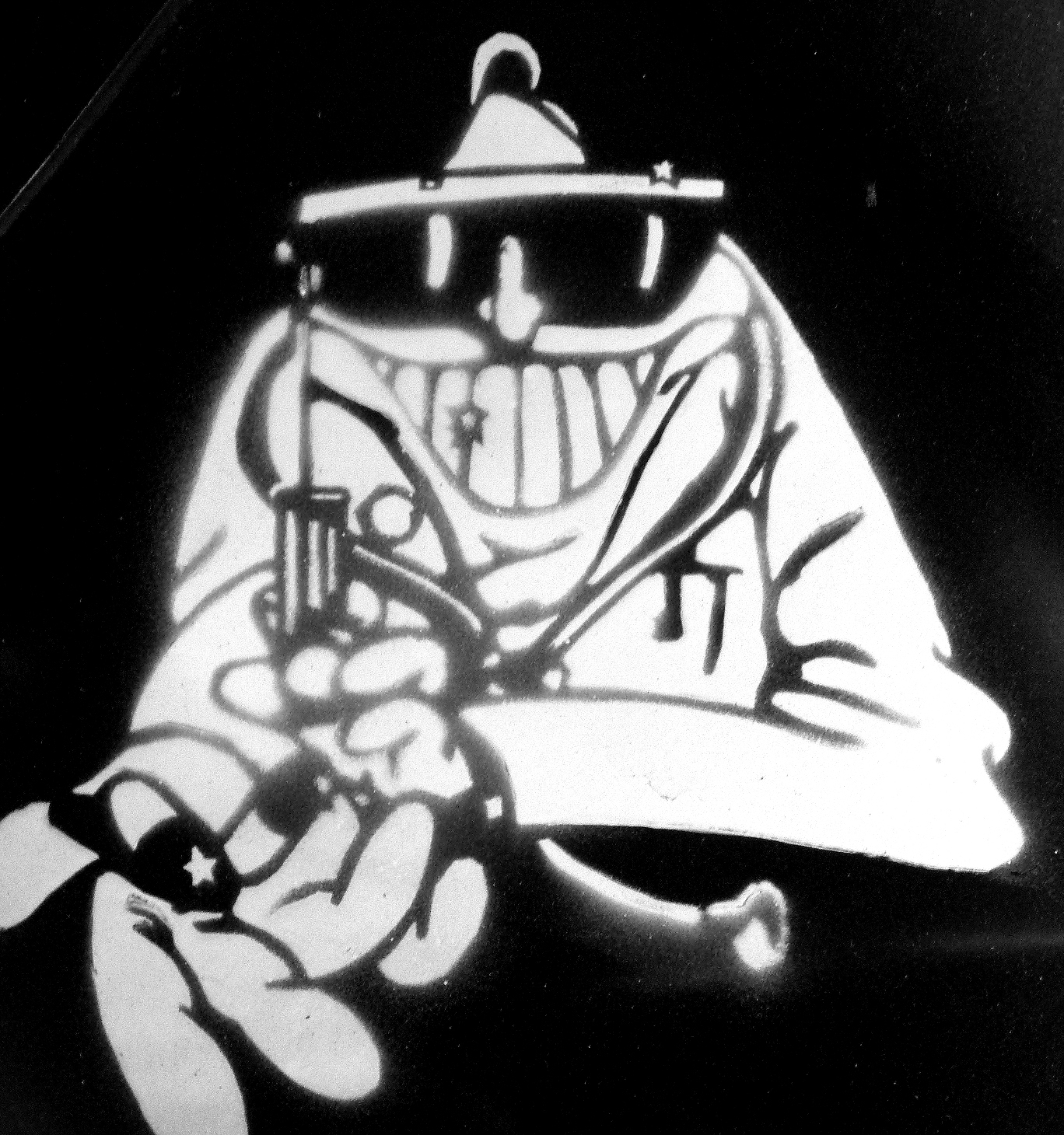 Stencil of Dr. Feelgood’s mascot, seen on a wall in Frankfurt-am-Main